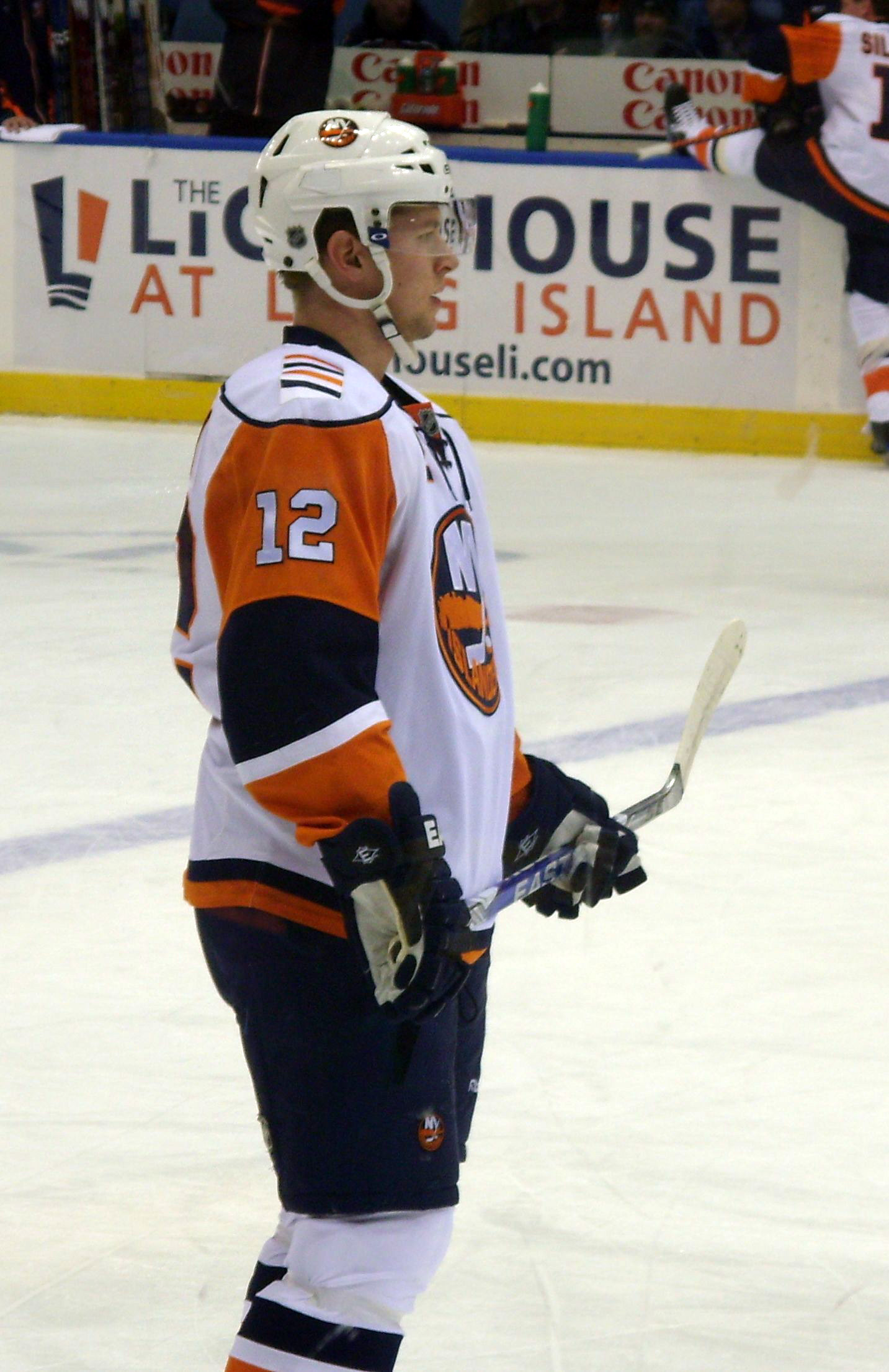 Josh Bailey of the New York Islanders during pregame warmups